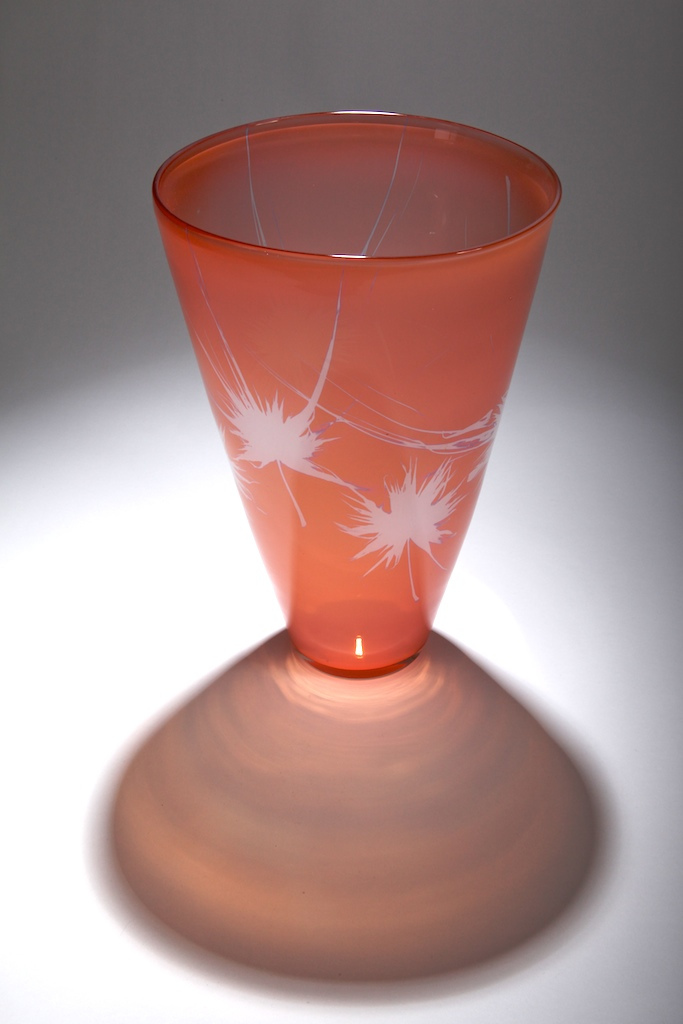 Blown glass art. Designed and made by New Zealand glass artist John Penman.